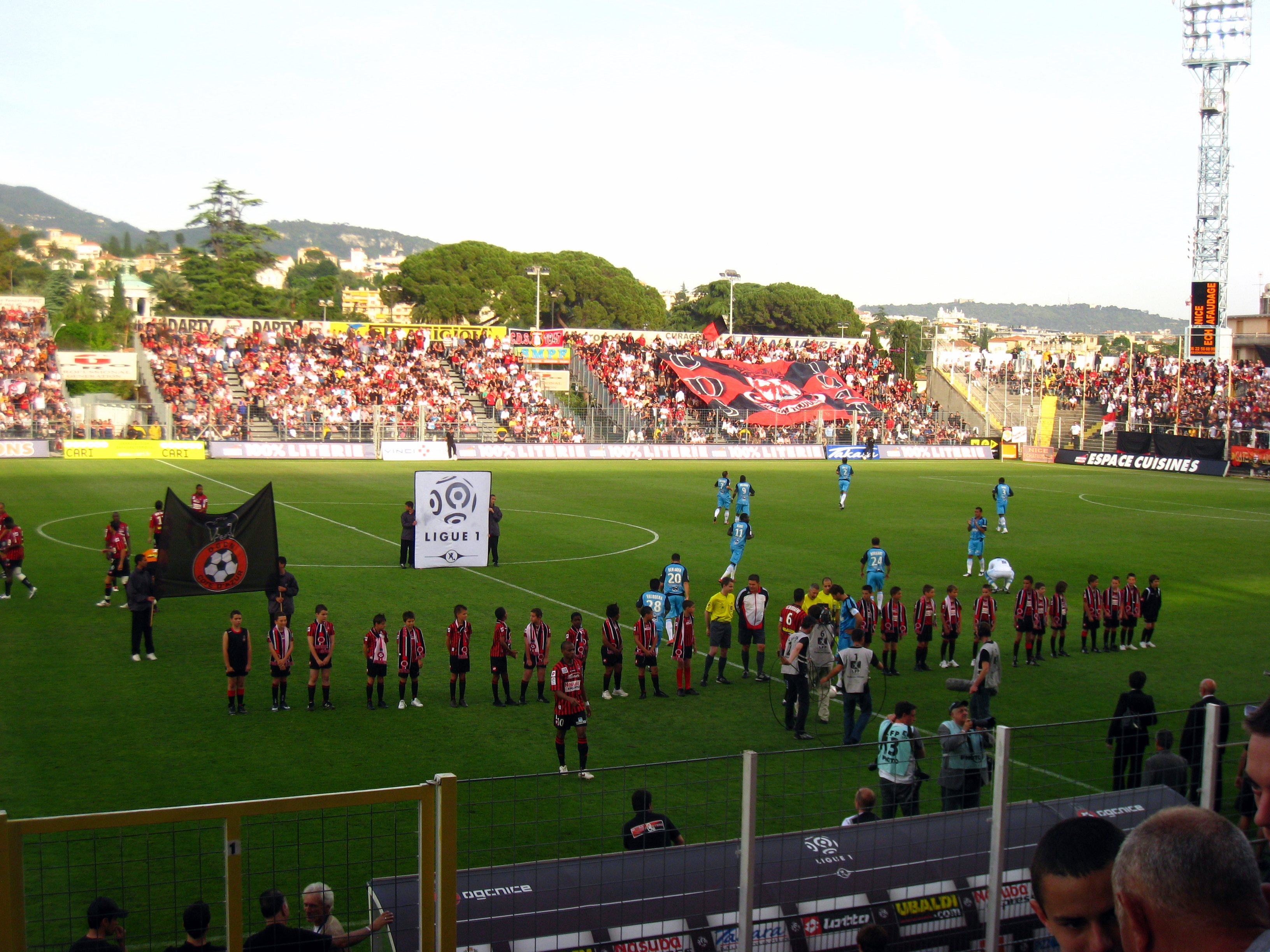 The stade du Ray in Nice, France, just before a football game between OGC Nice and Olympique de Marseille.